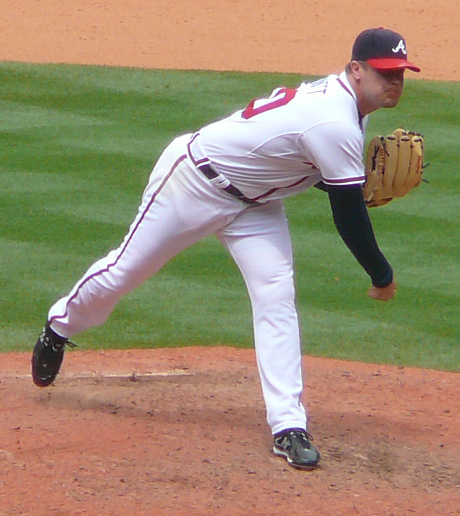 Please attribute this photo by name if used in places other than Wikipedia. 06:35, 29 May 2008 . . Chrisjnelson . . 460×516 (249 KB)